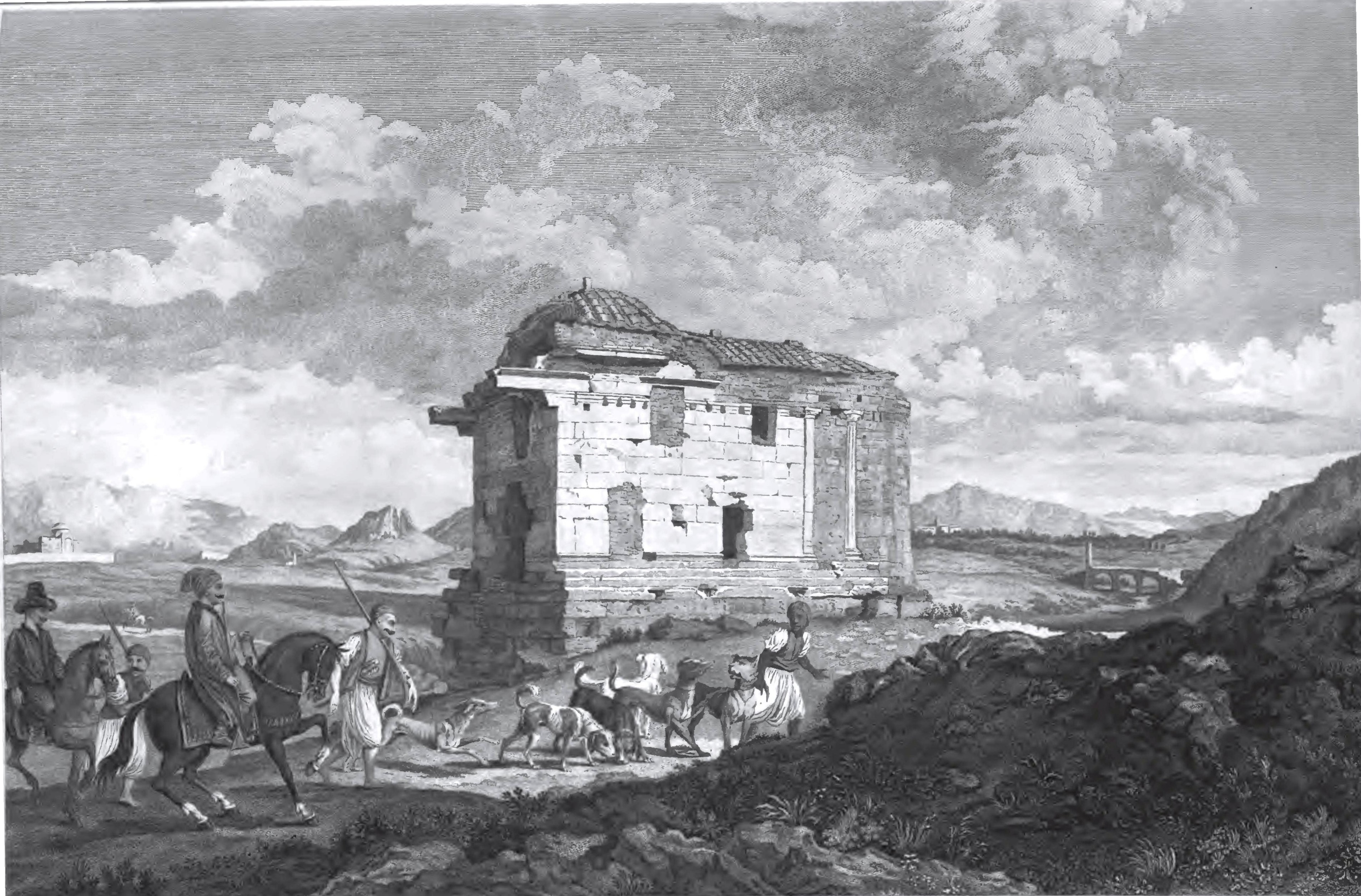 Ionic tempel on the Ilisos, Athens